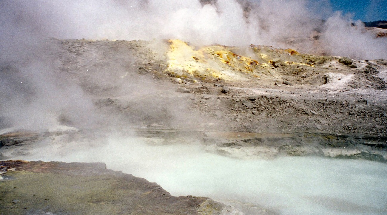 Indonesia Papandayan volcano Picture taken by Hullie august 1997